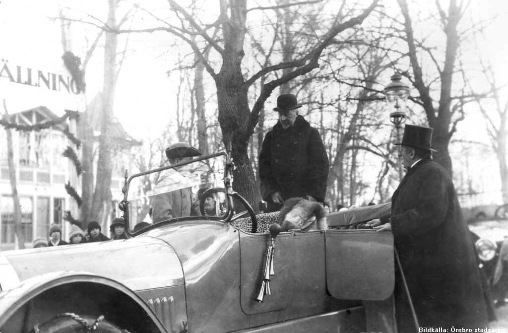 The prince Eugen visits an exhibition in Örebro in 1911